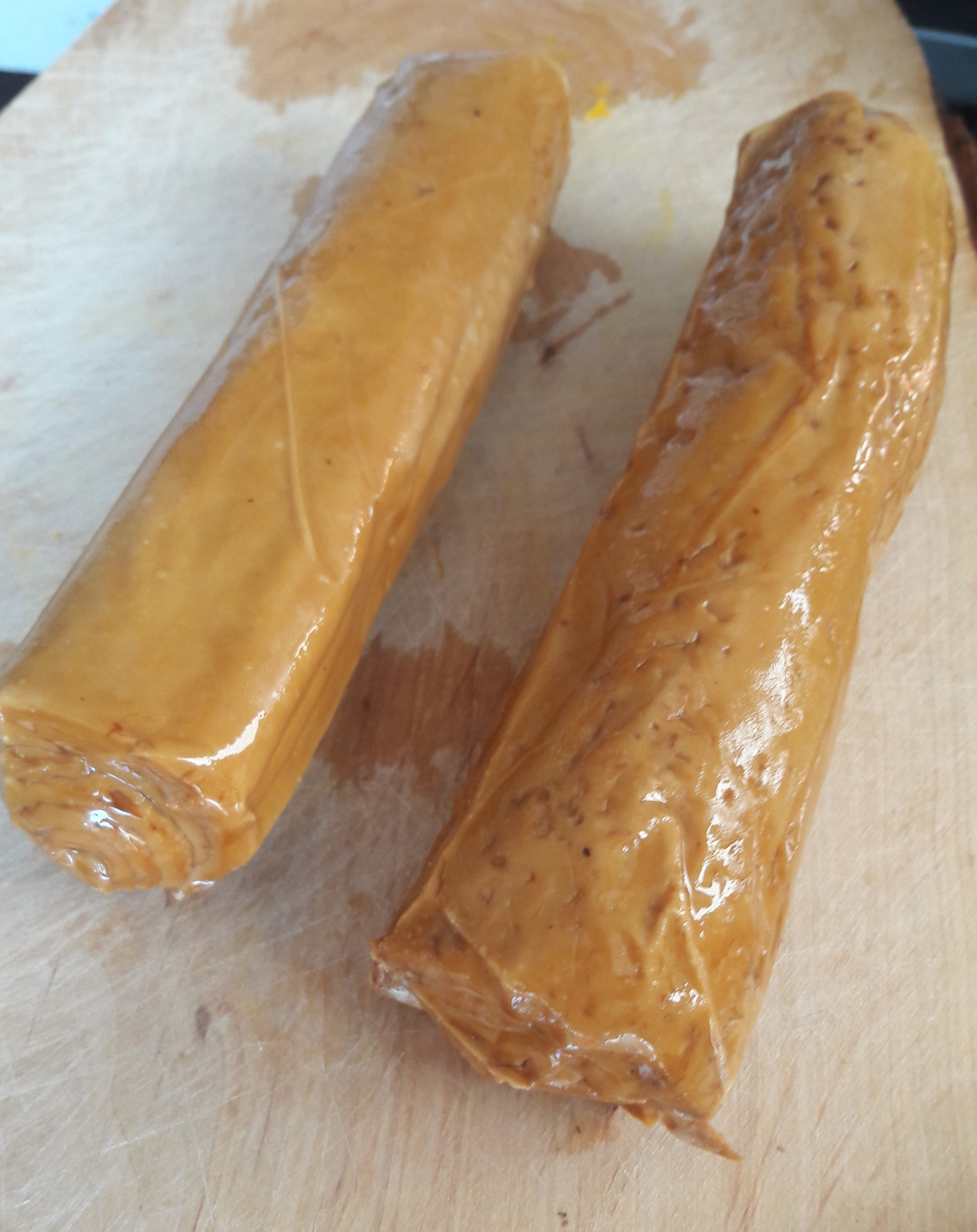 Qiangzhang (千张, litteraly one thousand sheets), roll of dried doufu. Also called ((wǔxiāng qiāqiānzhangnzhang juǎn(( ( 五香千张卷 , Five perfumes, one thousand sheet roll). The tofu is dried and mixed with five ferfumes mix, flattened and then rolled. It is generally cut in thin slices, letting thin rolls in the dish.